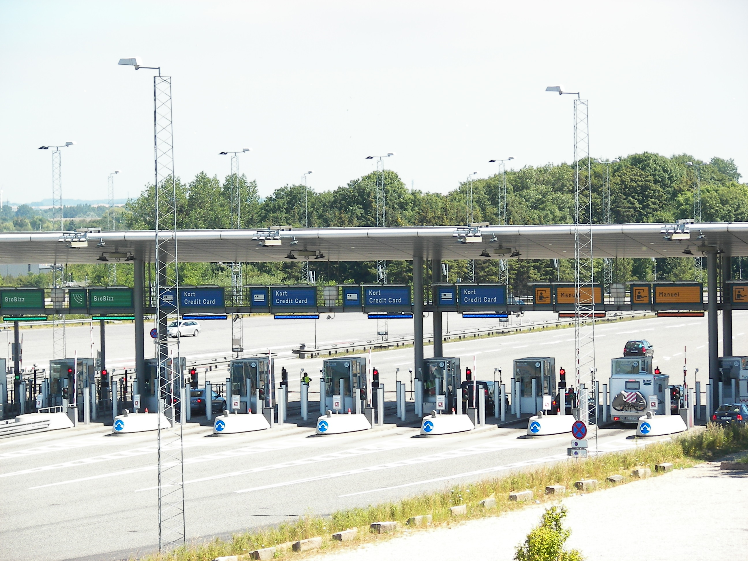 The pay station at Storebæltsbroen.